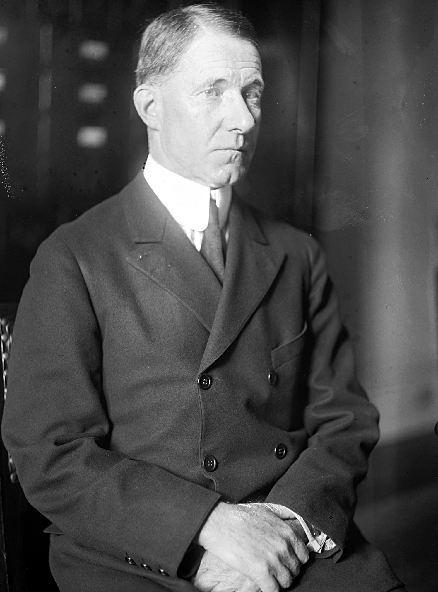 Louis A. Frothingham, US Representative from Massachusetts